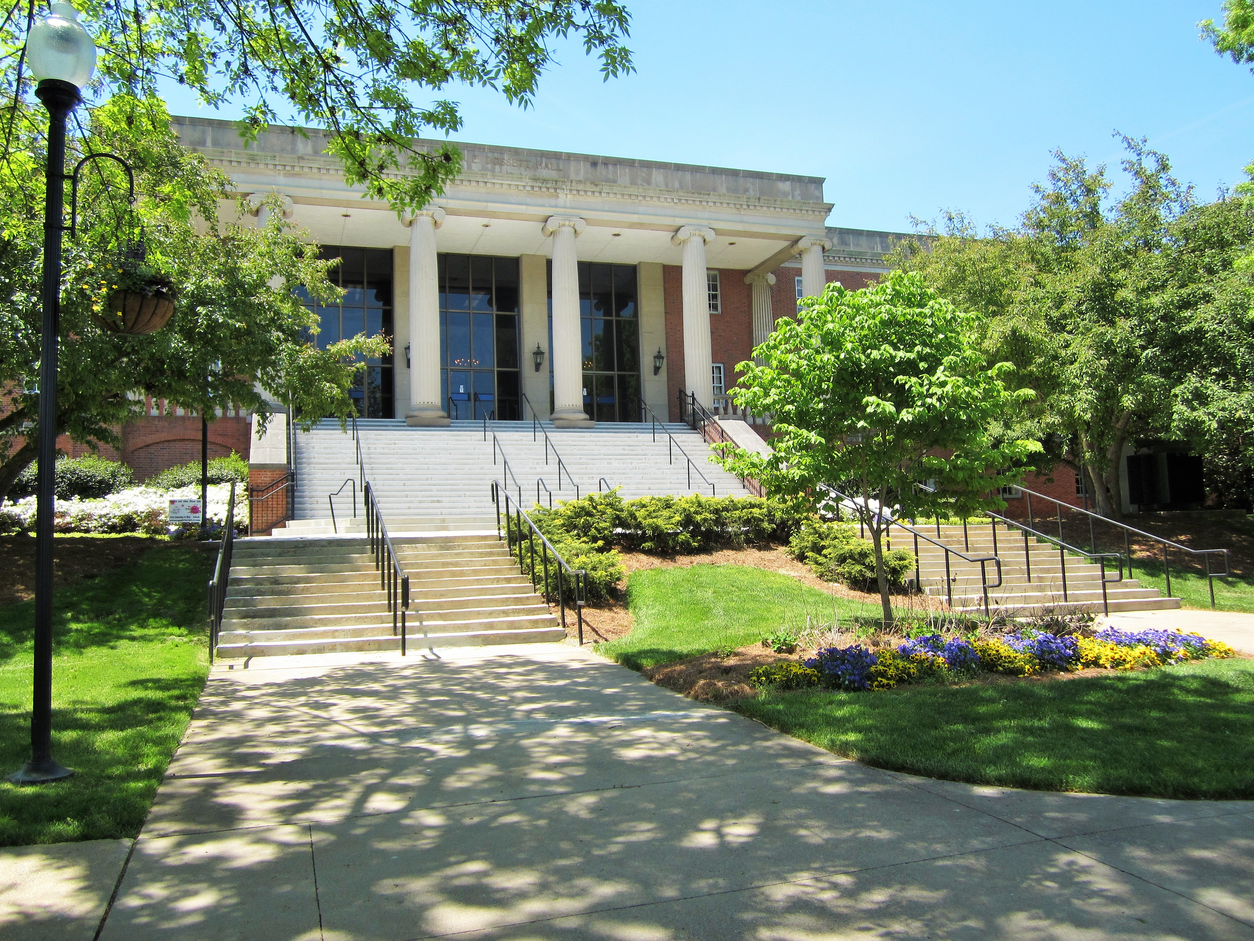 Dossett Hall ETSU in the spring